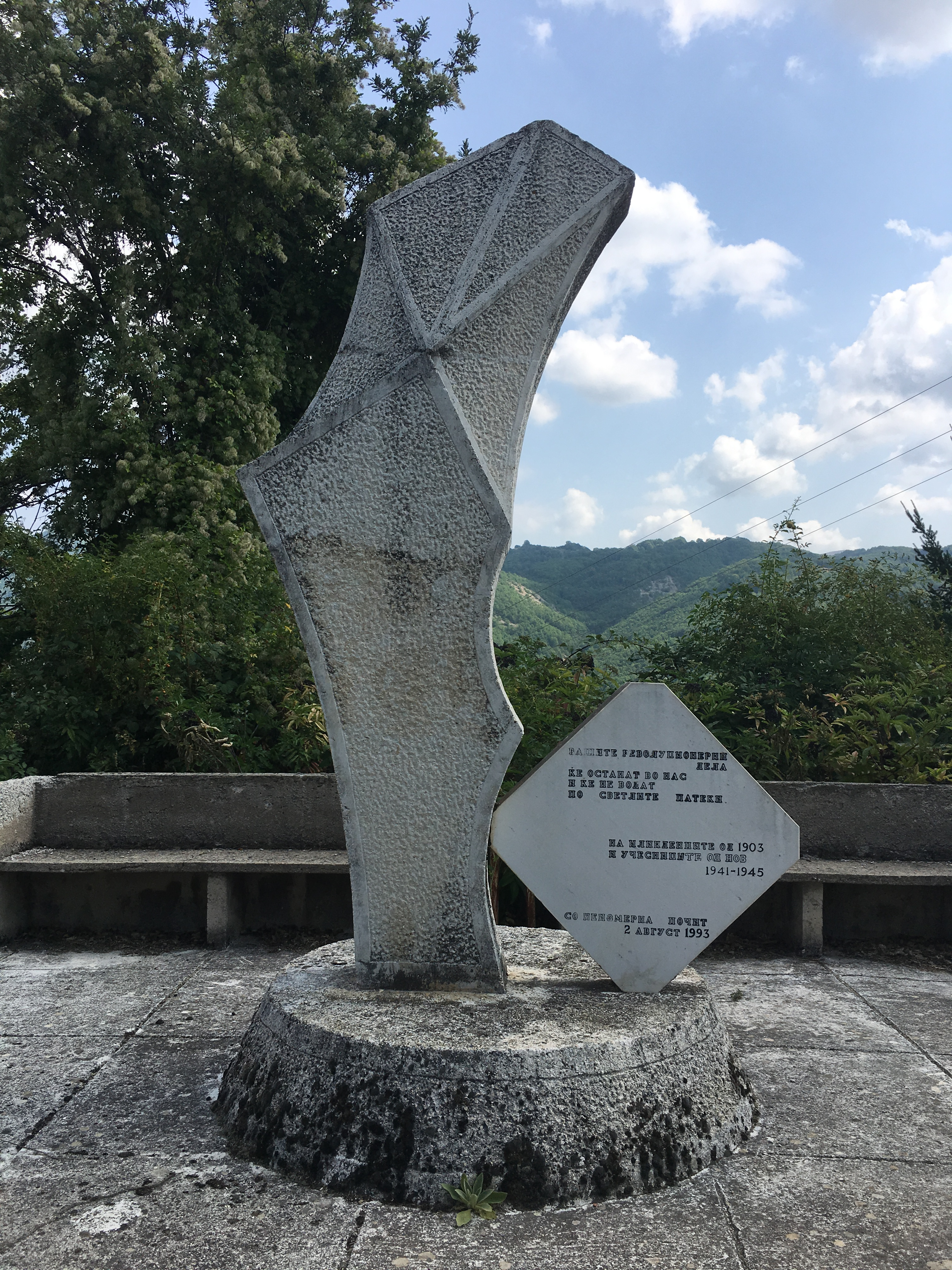 A monument in the village of Sviništa